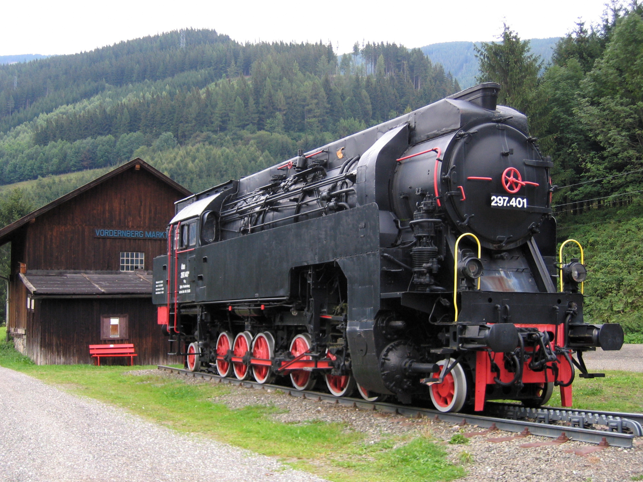 Erzbergbahn rack locomotive 297.401 on plinth at Vordernberg Markt station